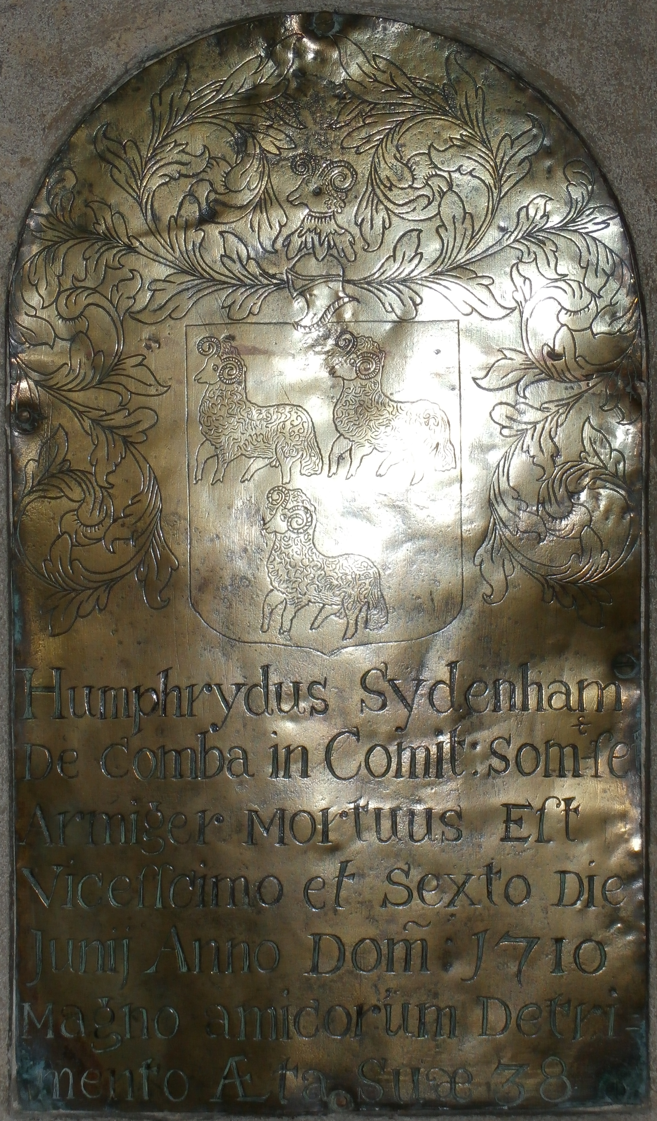 Monumental brass of Humphry Sydenham (1672-1710) of Combe, Dulverton in Somerset. North wall of All Saints' Church, Dulverton. Latin inscription: Humphrydus Sydenham de Comba in comit(atu) Som(er)set, Armiger, mortuus est vicesscimo et sexto die Junii Anno Dom(ini) 1710 magno amicorum detrimento aeta(tus) suae 38. ("Humphry Sydenham of Combe in the county of Somerset, Esquire, died on the twenty-sixth day of June in the year of our Lord 1710, to the great detriment of his friends, of his age 38") Above are shown the arms of Sydenham: Argent, three rams passant sable with crest above: A ram's head erased